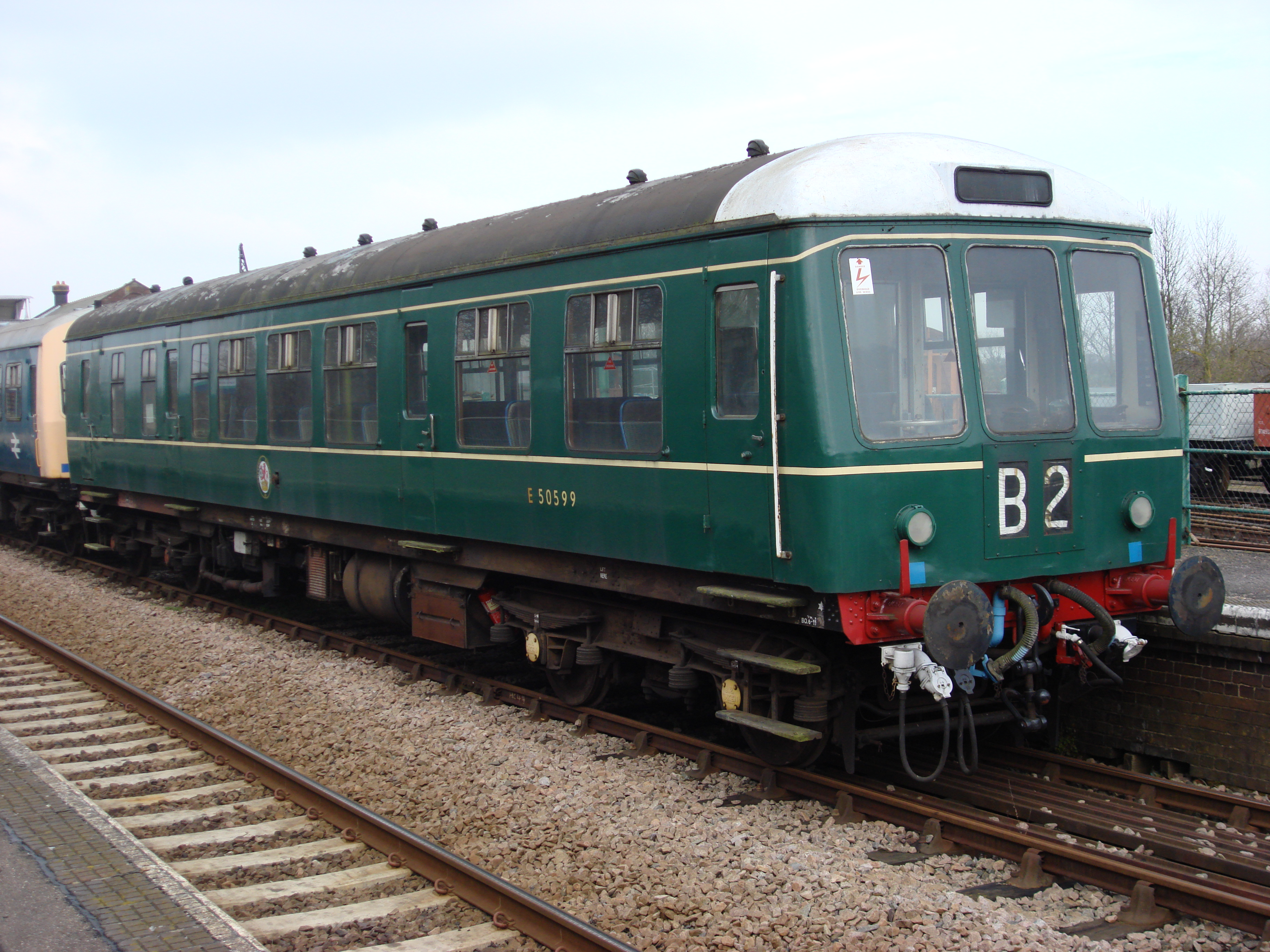 British rail class 108 number E 50599 at Chappel and Wakes Colne railway station belonging to The East Anglian Railway Museum